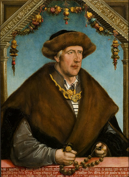 Christoph von Laiming zu Amerang (ca. 1460-1520), master of the household of Ludwig X, Duke of Bavaria.